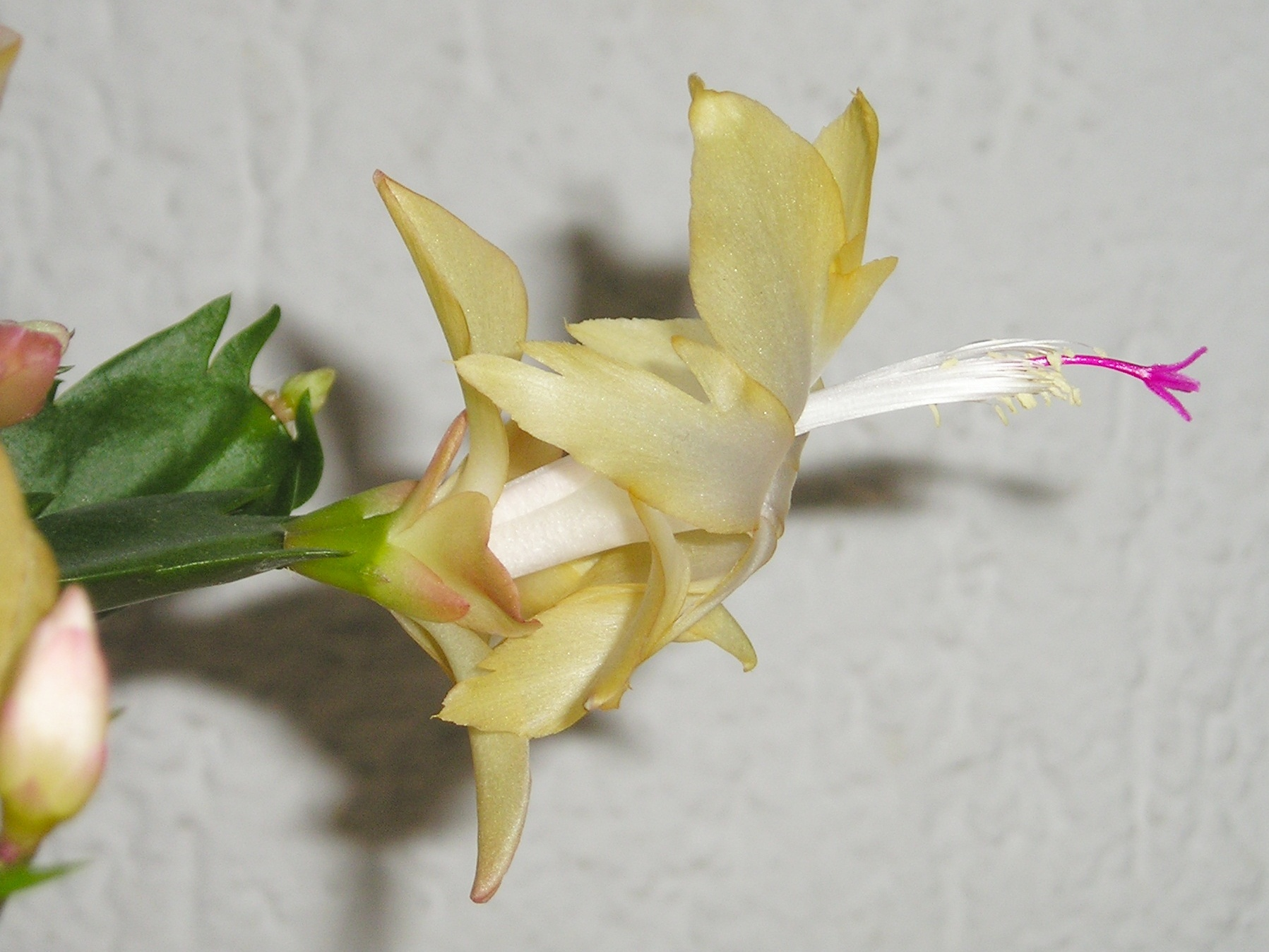 Weihnachtskaktus (Schlumbergera truncata 'Gold Charm') Creative Commons Licence BY 2.0 Quellenangabe / Credit: Photo by Maja Dumat